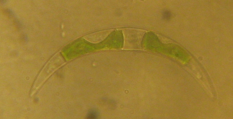 Closterium venus. Eutrophic lake (Zawadzkie in Poland) phytoplankton.